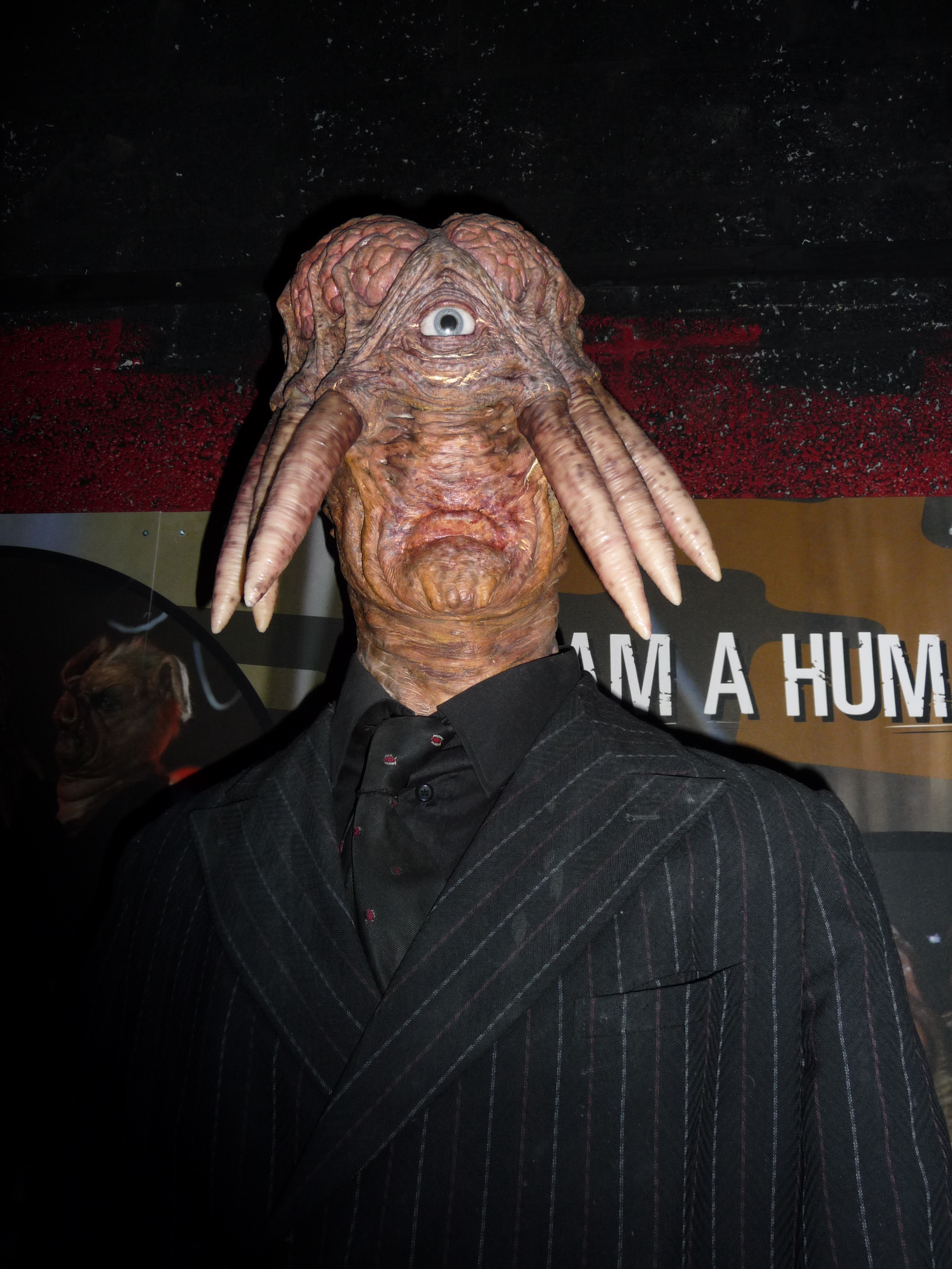 Dalek in Human form from the Dalek's in Manhattan, at the Dr Who exhibition in Cardiff